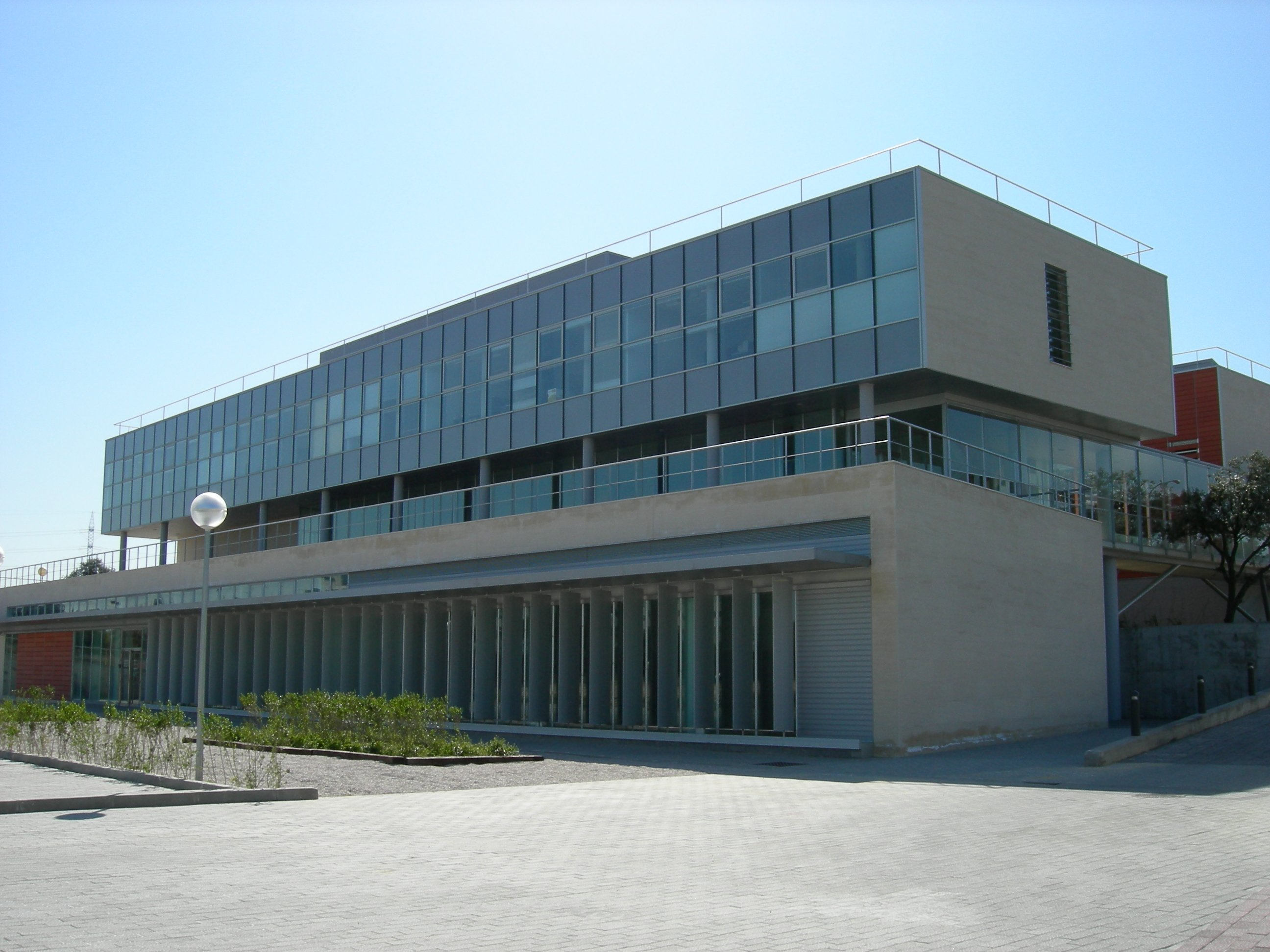 CeDint Building. Located in the Technical University of Madrid (UPM).